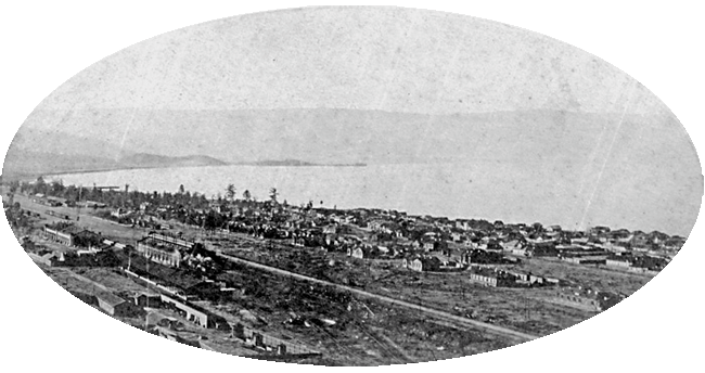 Slyudyanka in 1914.